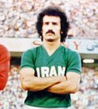 Gholam Hossein Mazloumi, former Iranian football player and coach